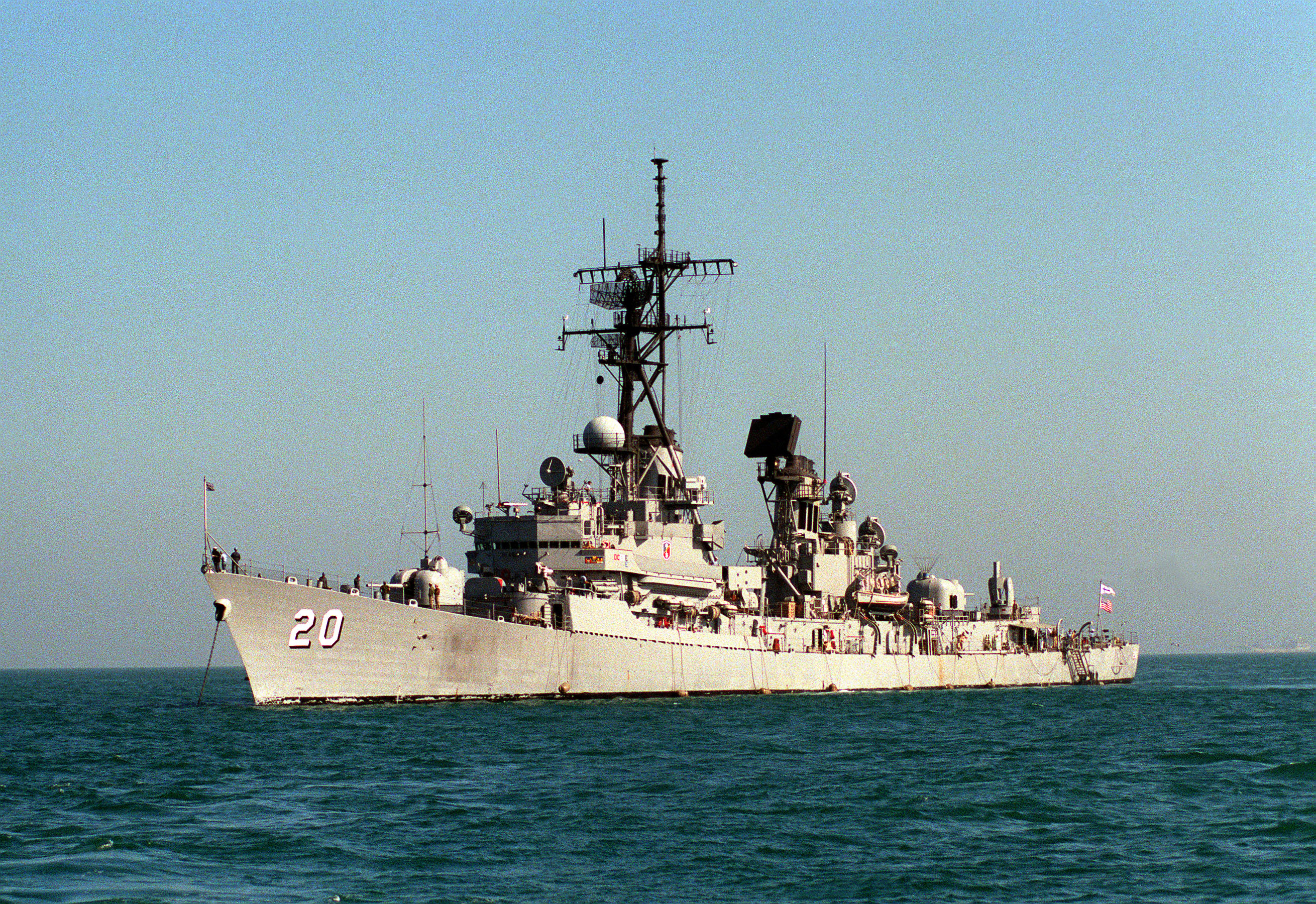 The U.S. Navy guided missile destroyer USS Goldsborough (DDG-20) lies at anchor off Mina Sulman, Bahrain, on 1 December 1986. Note that Goldsborough was one of only three Charles F. Adams-class destroyers to receive the New Threat Upgrade (NTU). This consisted of a number of sensor, weapons and communications upgrades that were intended to extend the service lives of the ships. Under the NTU, these destroyers received improved electronic warfare capability through the installation of the AN/SLQ-32(V)2 electronic warfare suite. The upgraded combat system included the Mark 86 gun fire control system with AN/SPQ-9 radar and the AN/SPG-60 fire control radar (both visible above the bridge), the Hughes AN/SPS-52C 3D radar, the AN/SPG-51C (Digital) fire control radars, and the Naval Tactical Data System (NTDS).